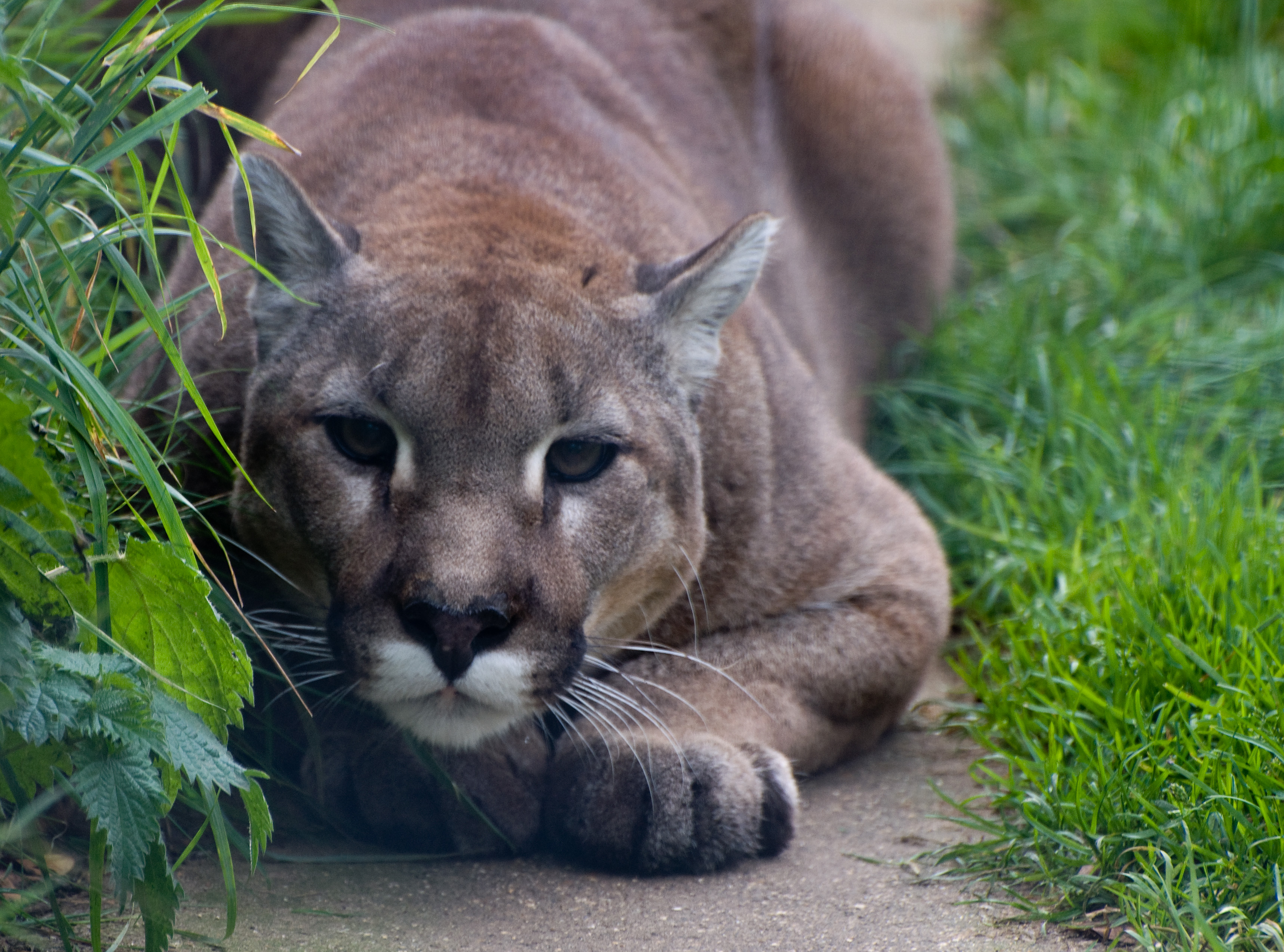 A cougar staring at me at Shepreth Wildlife Park